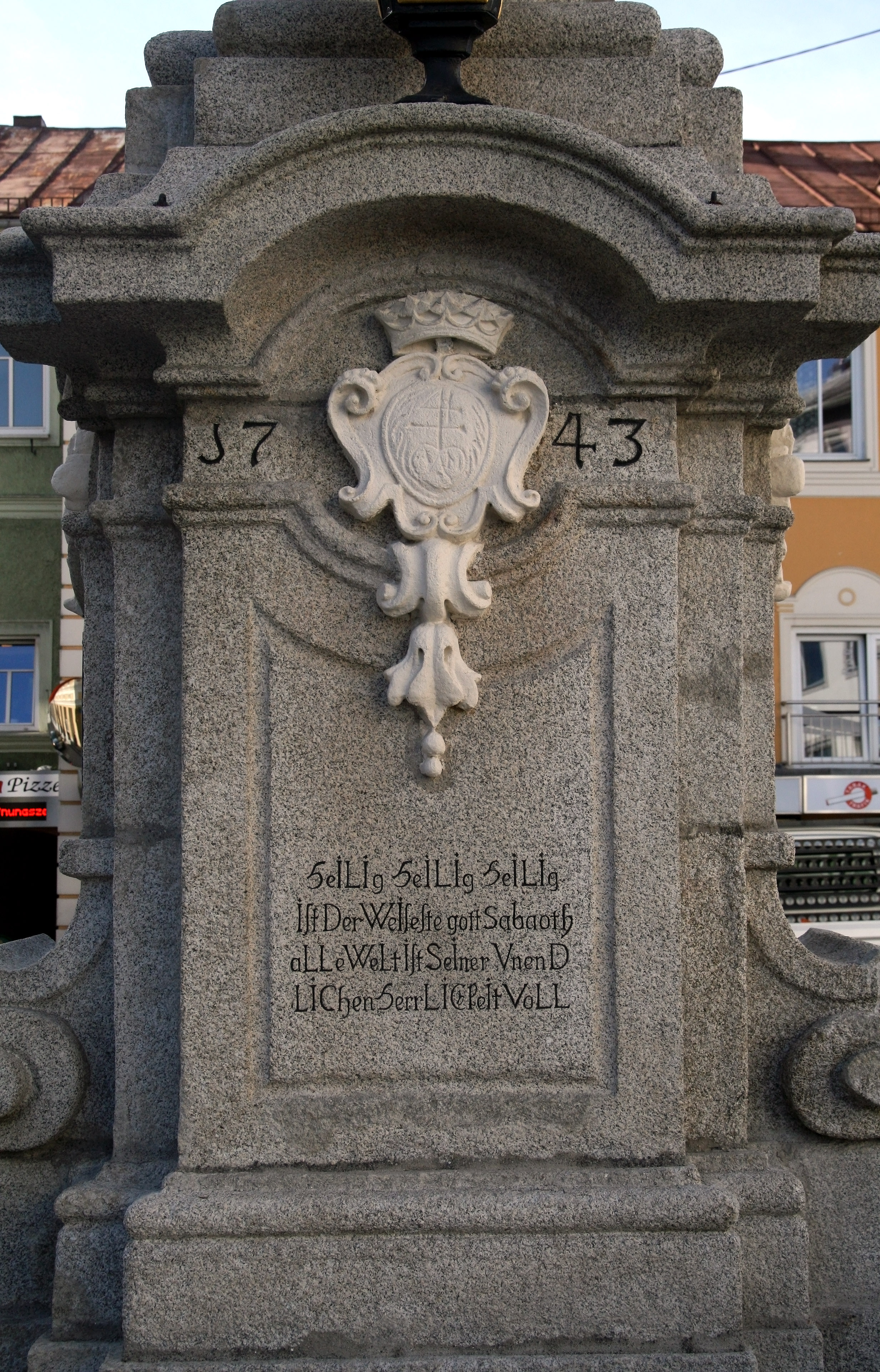 Inscription on the Holy Trinity column in Rohrbach in Oberösterreich, Upper Austria.